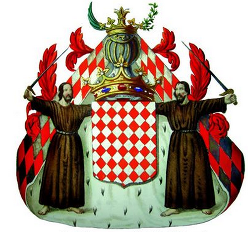 First version of the heraldry of the Princes of Monaco, House of Grimaldi